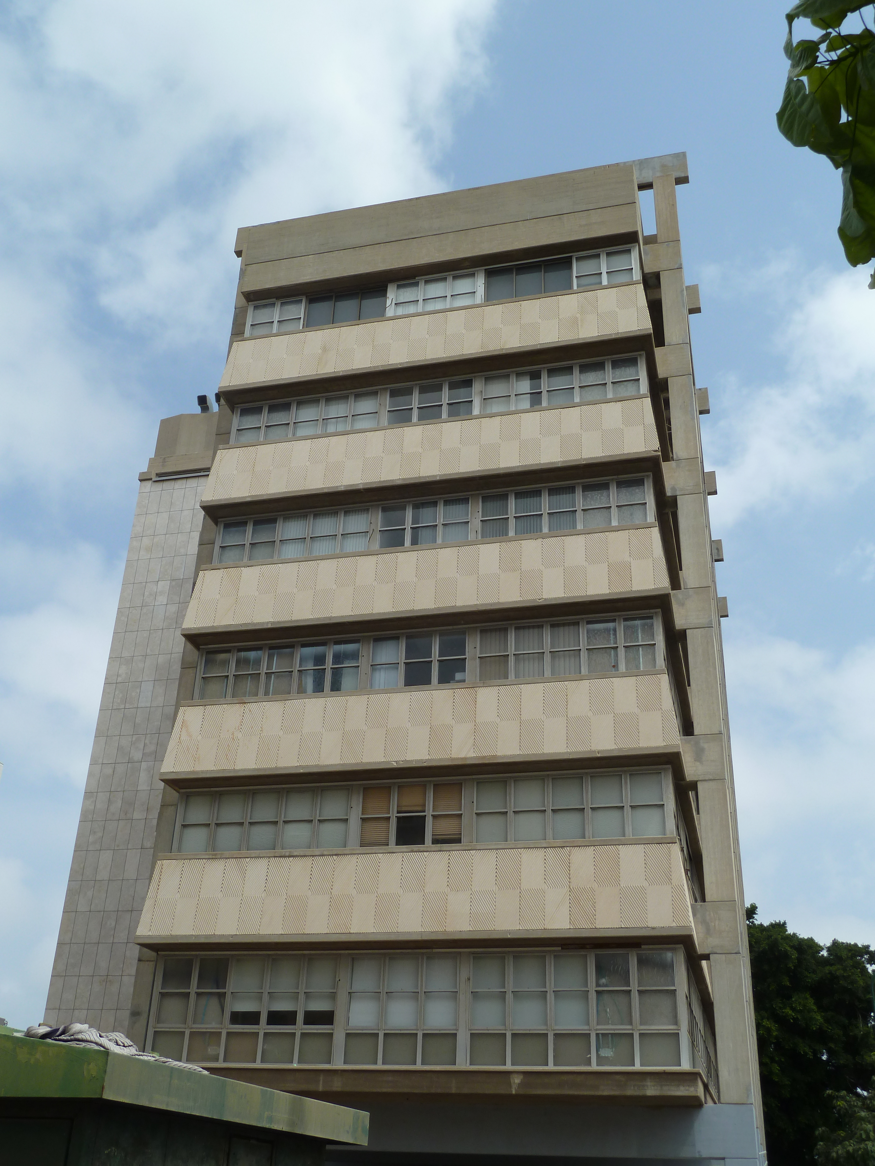 Kibbutz Movement House, Tel Aviv, Israel